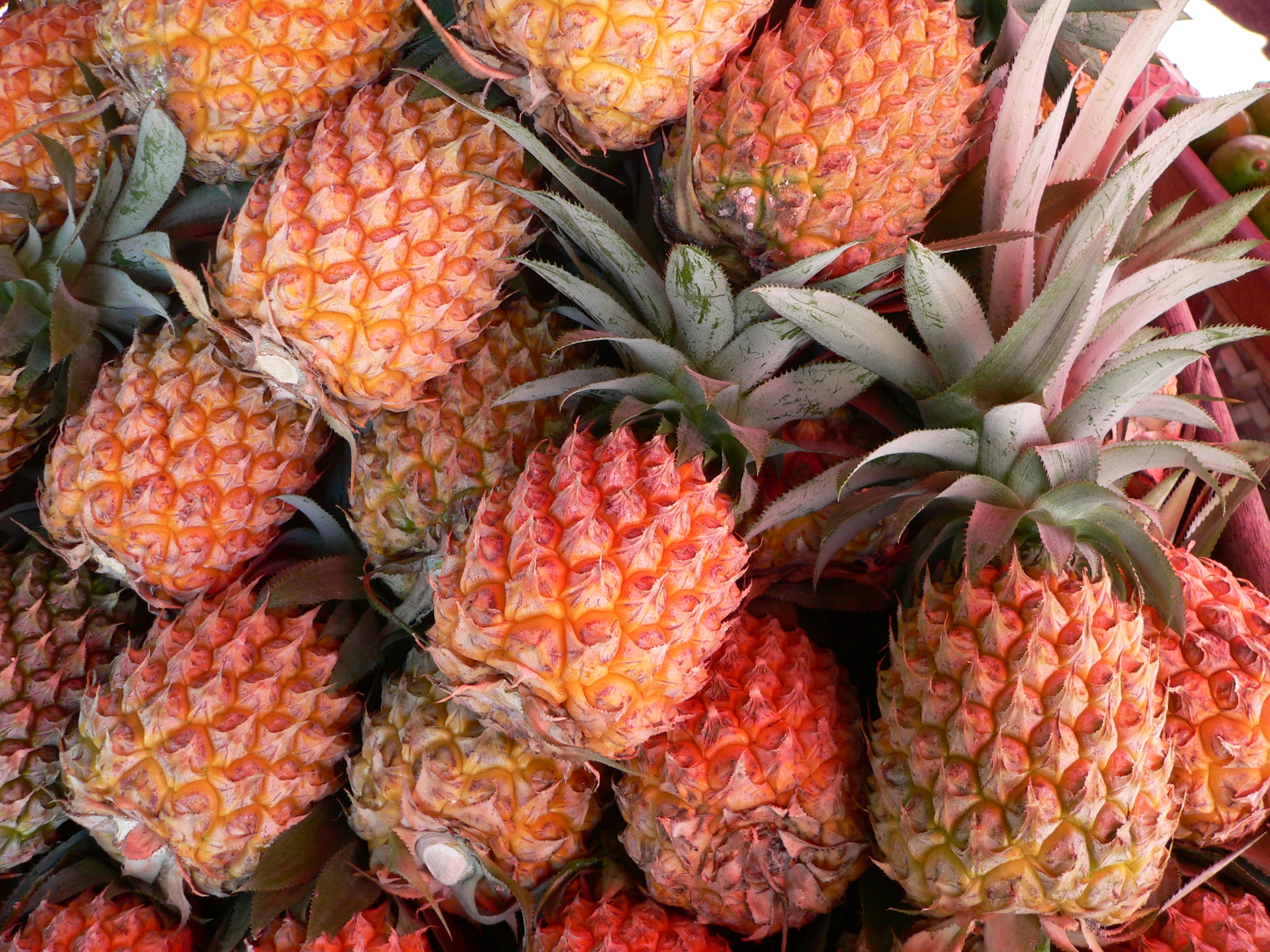 Pineapple (Ananas comosus), 'Victoria' cultivar, on sale on Réunion Island